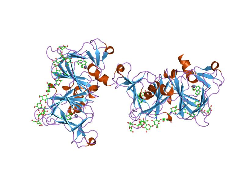 Cartoon representation of the molecular structure of protein registered with 1lrh code.